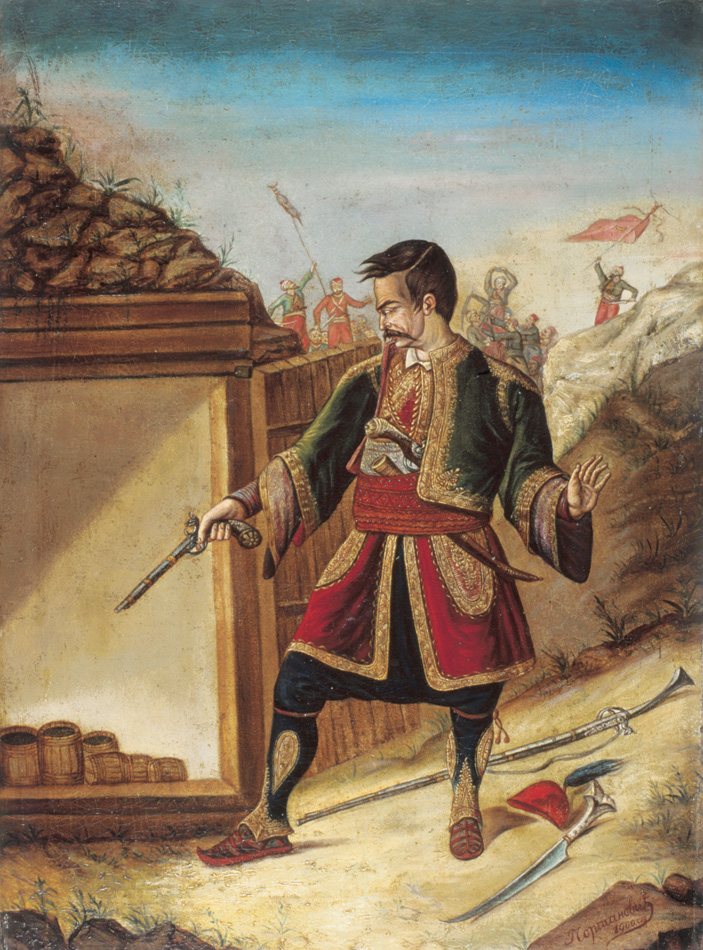 Oil on canvas "Stevan Sinđelić at Battle of Čegar Hill"